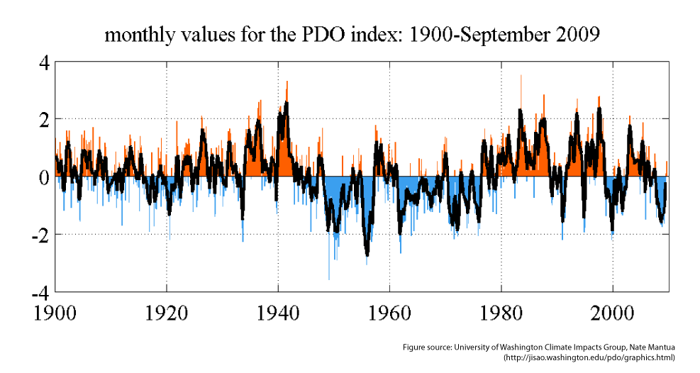 Monthly values for the Pacific decadal oscillation index, 1900 – present